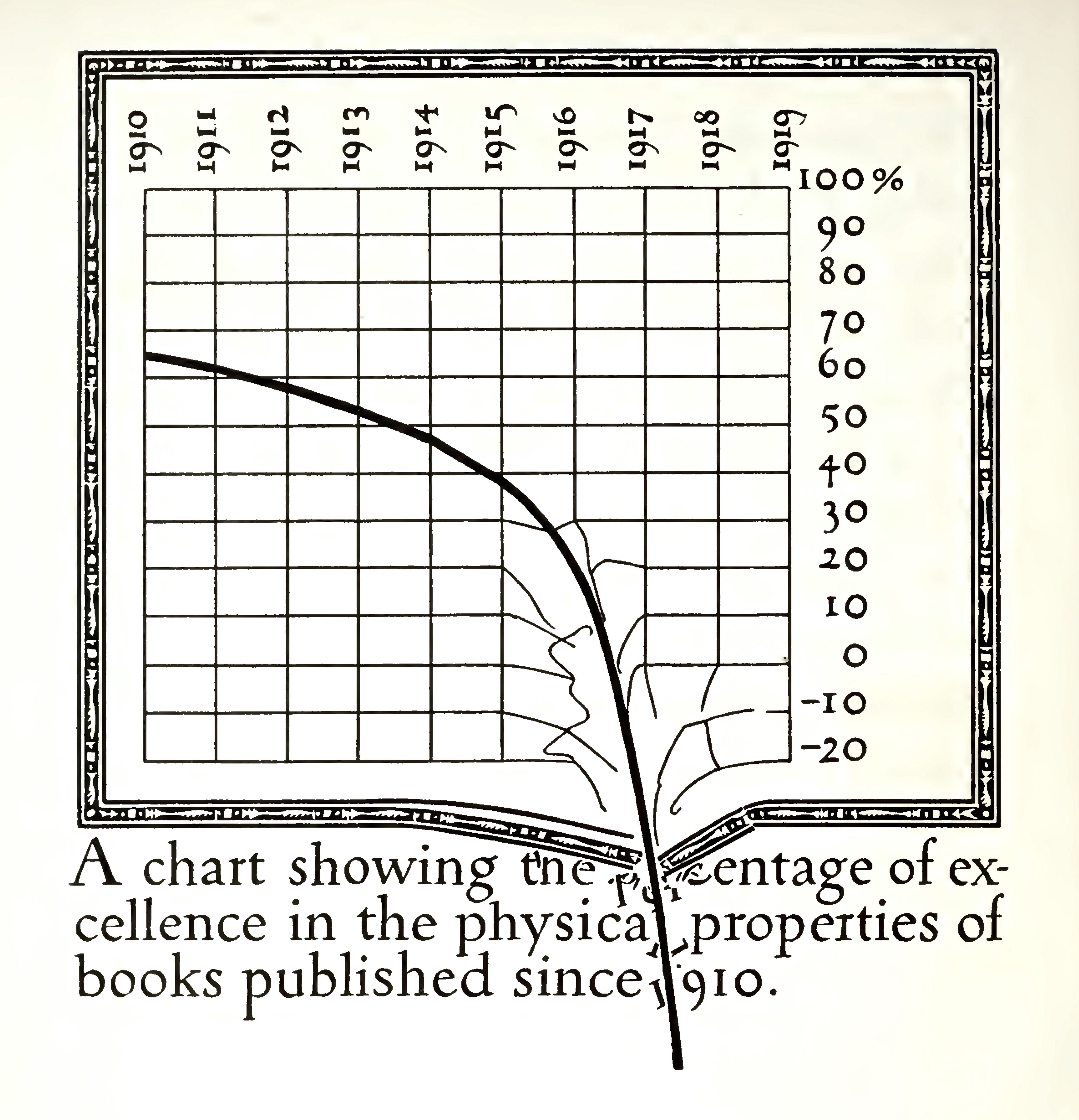 Published in 1919, Dwiggins used this parody graph to express his opinion of standards in printing